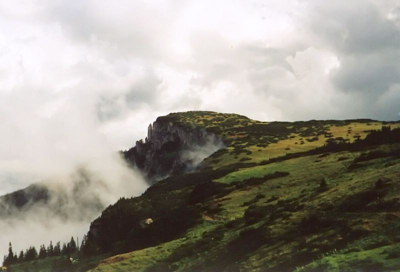 Mount CeahlÄƒu - OcolaÅŸul Mare Peak Author: Cristibur, 2004 Digitally enhanced by User:Mihai, 2006.